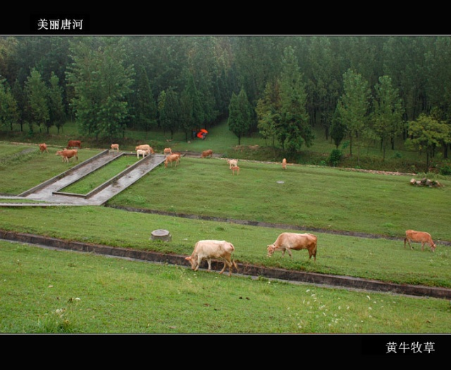 Cow raising is an important sector of Tanghe's economy